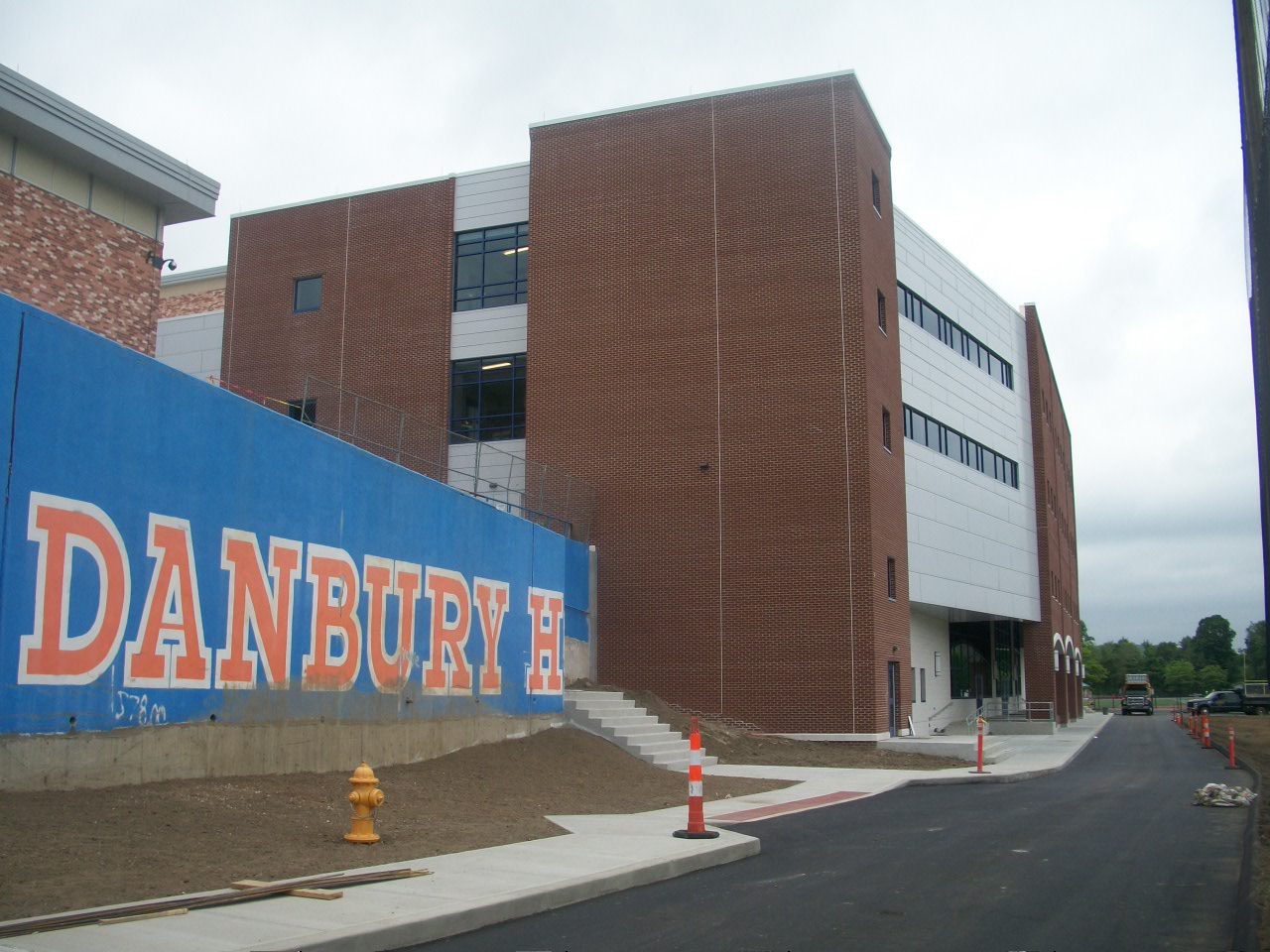 a new building apart of Danbury High School